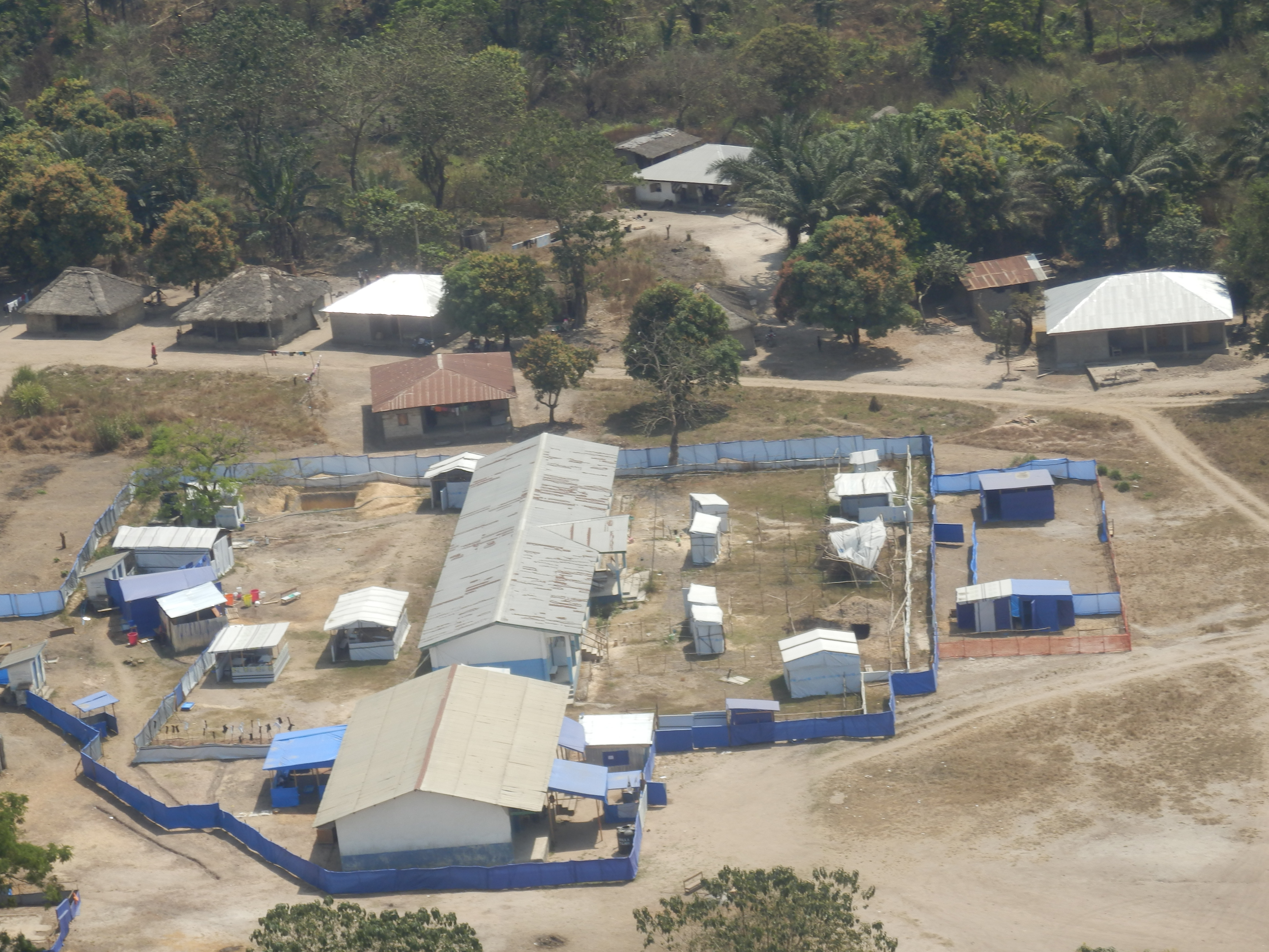 MDM Holding Center for Ebola patients, Kumala, Sierra Leone